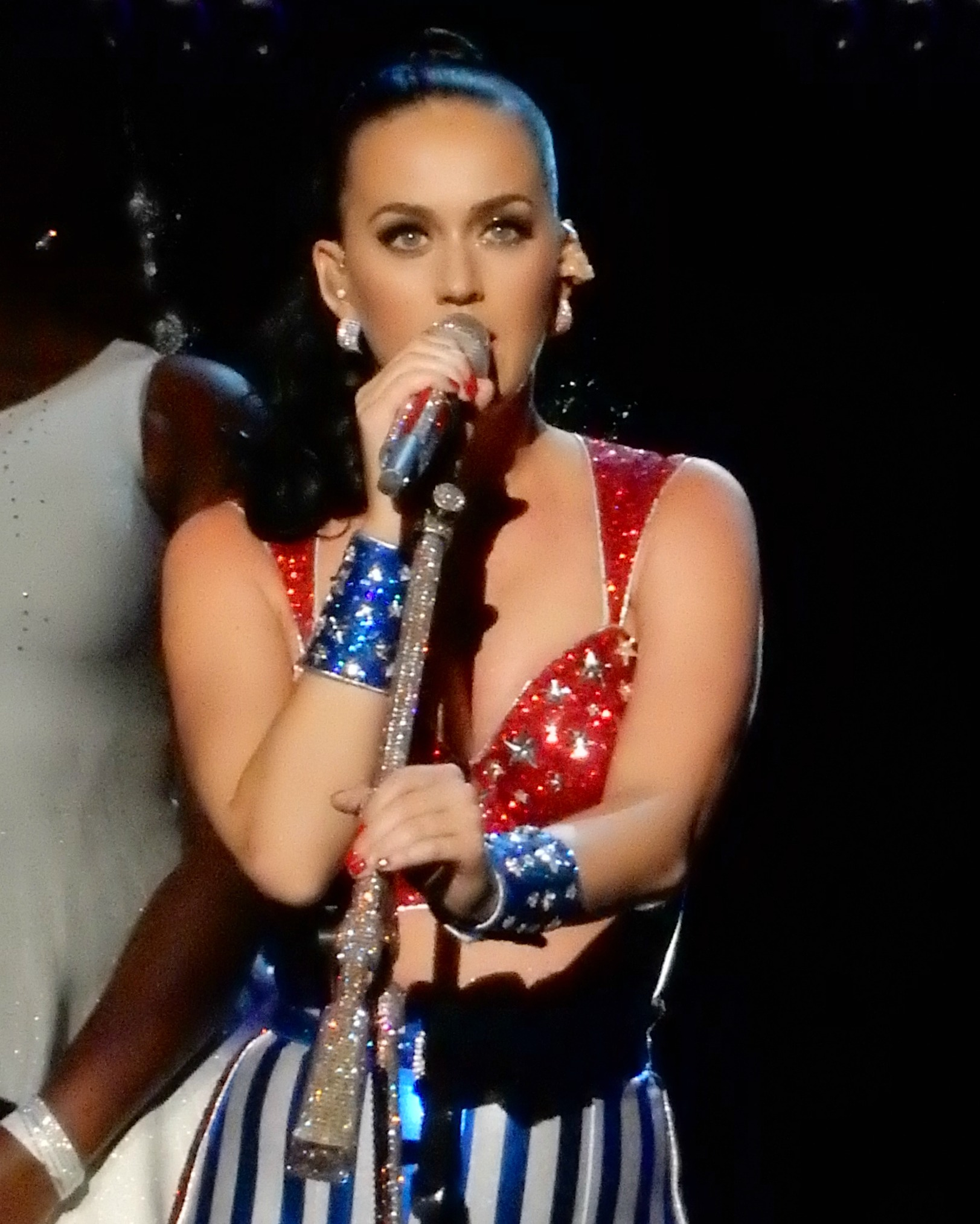 Katy Perry At The I'm With Her Concert for Hillary Clinton at Radio City Music Hall